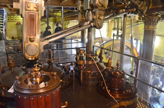 Abbey Pumping Station - Cylinder heads, Abbey Pumping Station - Cylinder heads:: OS grid SK5806 :: Geograph Britain and Ireland - photograph every grid square! Geograph - photograph every grid square SK5806 : Abbey Pumping Station - Cylinder heads near to Leicester, Great Britain.